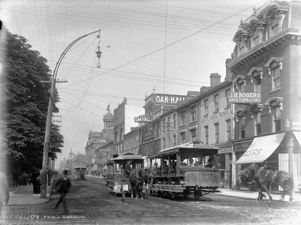 Toronto Street Railway Co. horse-car 145 on King street. View from Church street. (Toronto, Canada)